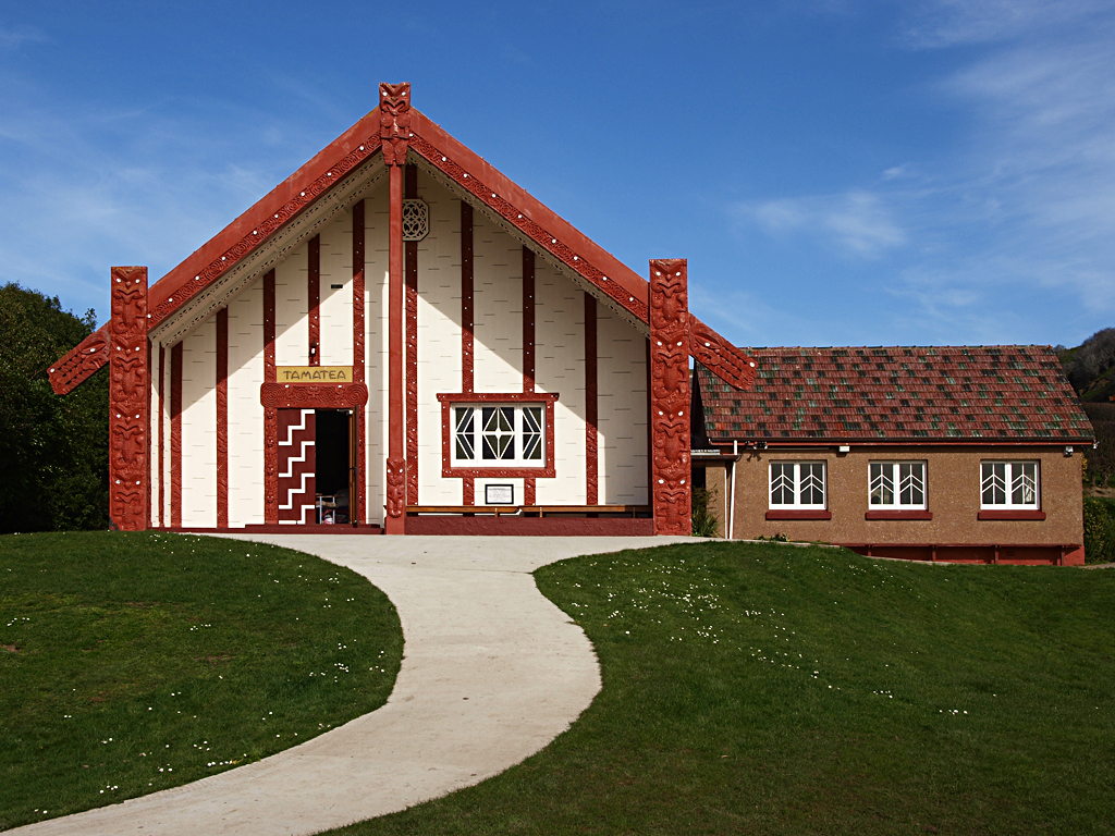 Whare Runanga (meeting house) from Otakou, Dunedin, New Zealand, build in 1946